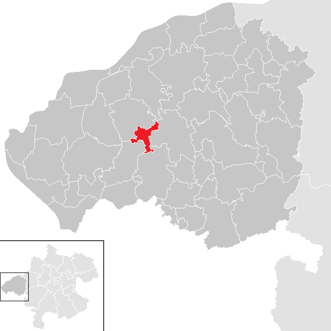 district Braunau am Inn